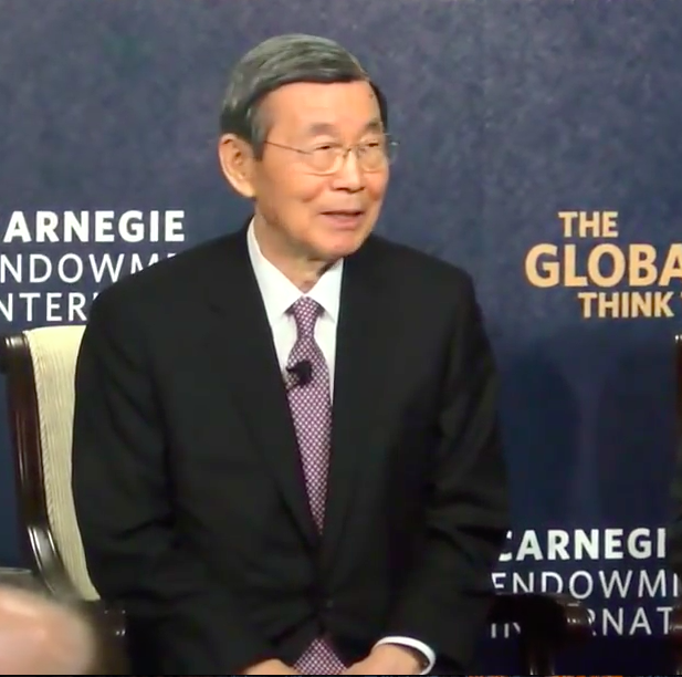 Hyun Hong-choo speaking to the Carnegie Endowment for International Peace on 9 September 2015